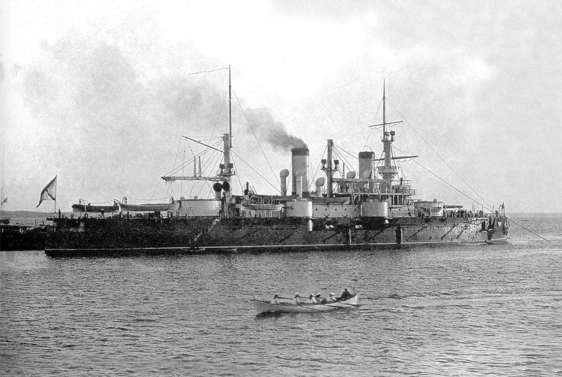 Imperial Russian battleship Sevastopol in Kronshtadt, September 1900.